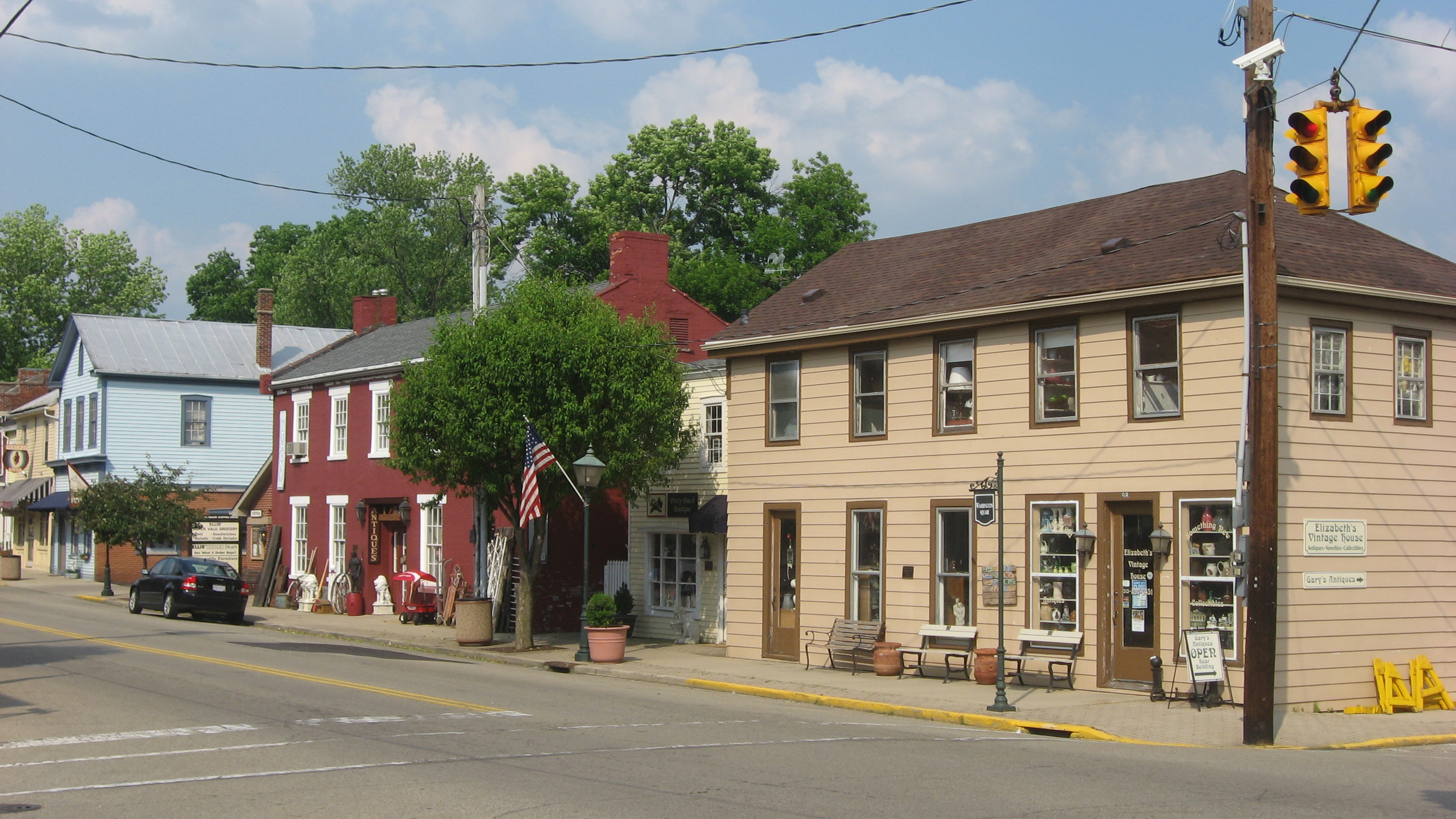 Buildings on the eastern side of Main Street near the Miami Street intersection in Waynesville, Ohio, United States. This block is part of the Waynesville Main Street Historic District, a historic district that is listed on the National Register of Historic Places.